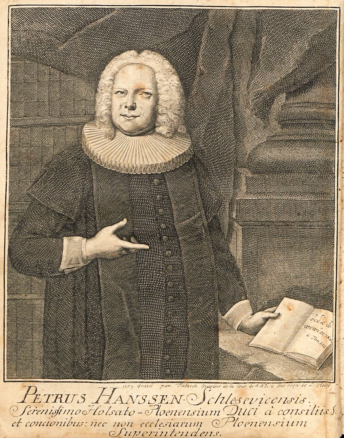 Portrait of Peter Hansen (Superintendent) (1686-1760), frontispiece of Peter Hanssens, Hoch-Fürstlich-Schleßwig-Hollsteinischen Consitorial-Raths Superintendenten und Hof-Predigers Heilige Betrachtungen über alle Sonn- und Fest-Tags-Evangelia: Mit nöthigem Register. Lübeck und Leipzig: Böckmann, 1748